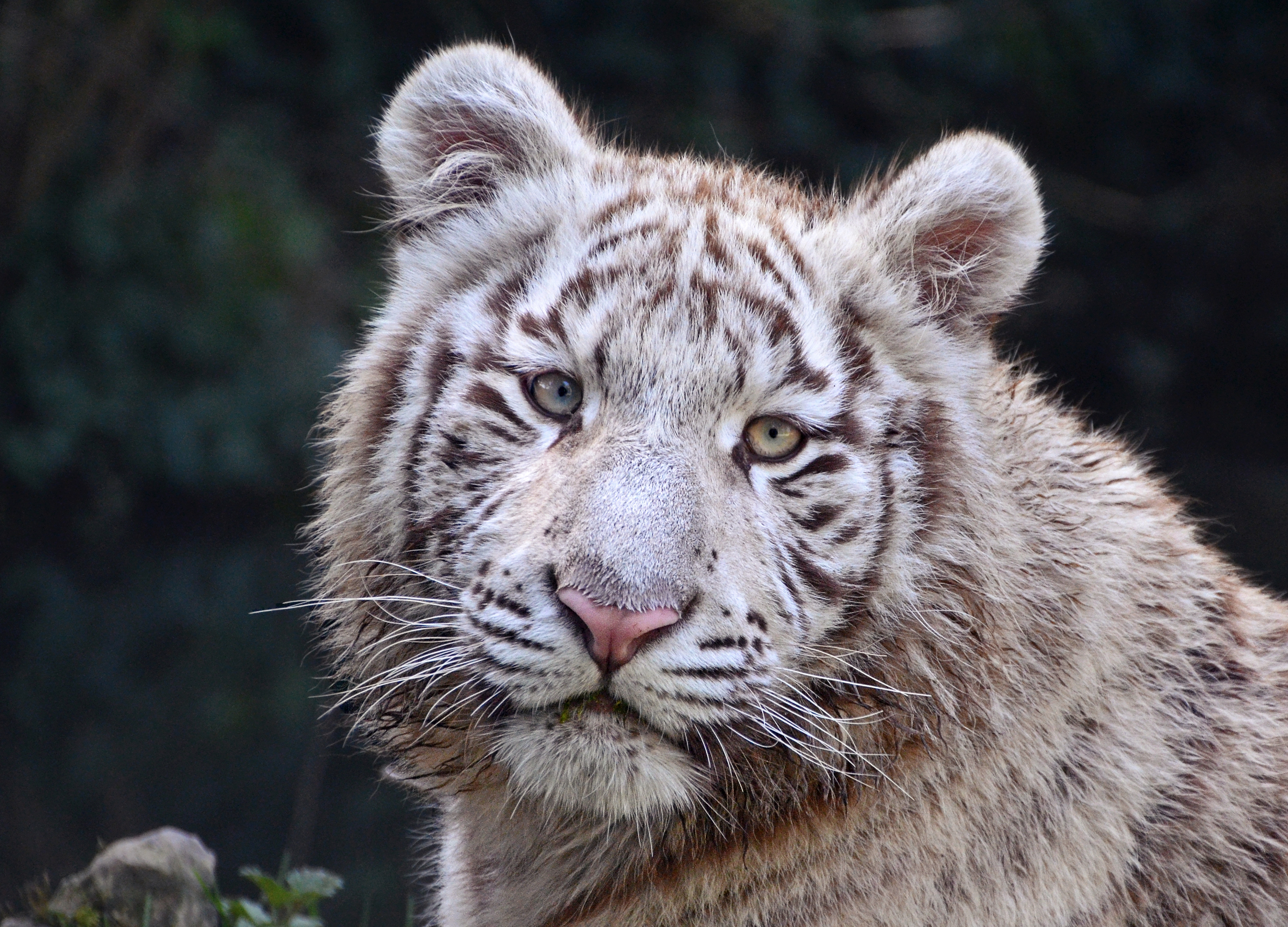 White tiger photographed in Touroparc Zoo, Romanèche-Thorins France.